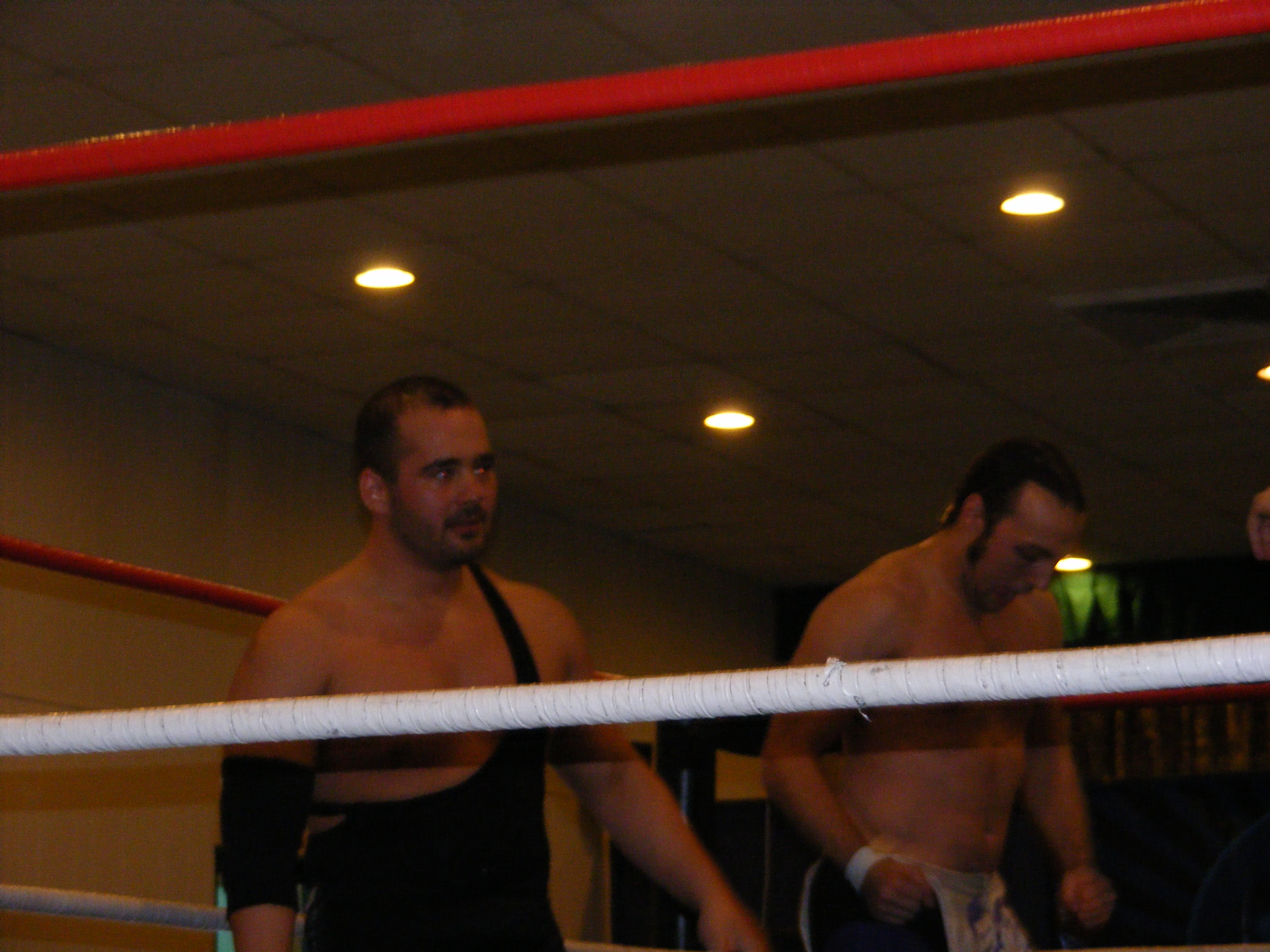 The Olsen Twins (Jimmy, left, and Colin, right) at a Chikara show in Hamden, CT on October 24, 2010.